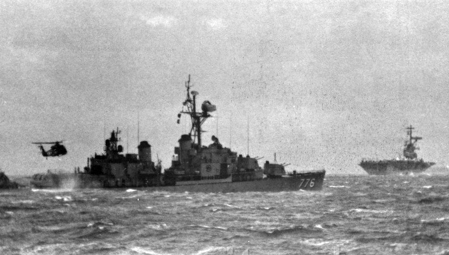 The U.S. Navy Allen M. Sumner-class destroyer USS James C. Owens (DD-776) in the Tonkin Gulf, circa in 1970, with a Kaman UH-2C Seasprite hovering above its flight deck. Note the Essex-class carrier in the background.